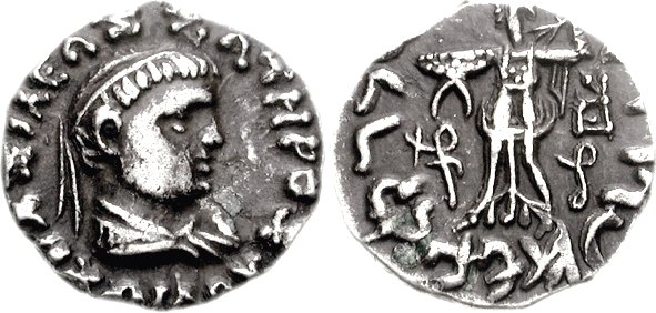 Coin of the Indo-Graeco king Zoilos II.